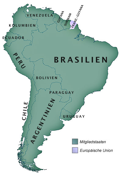 South American Community of Nations member states. German version